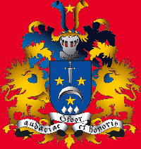 Coat of Arms of Gloor ,family from Aargau, a canton in northern Switzerland